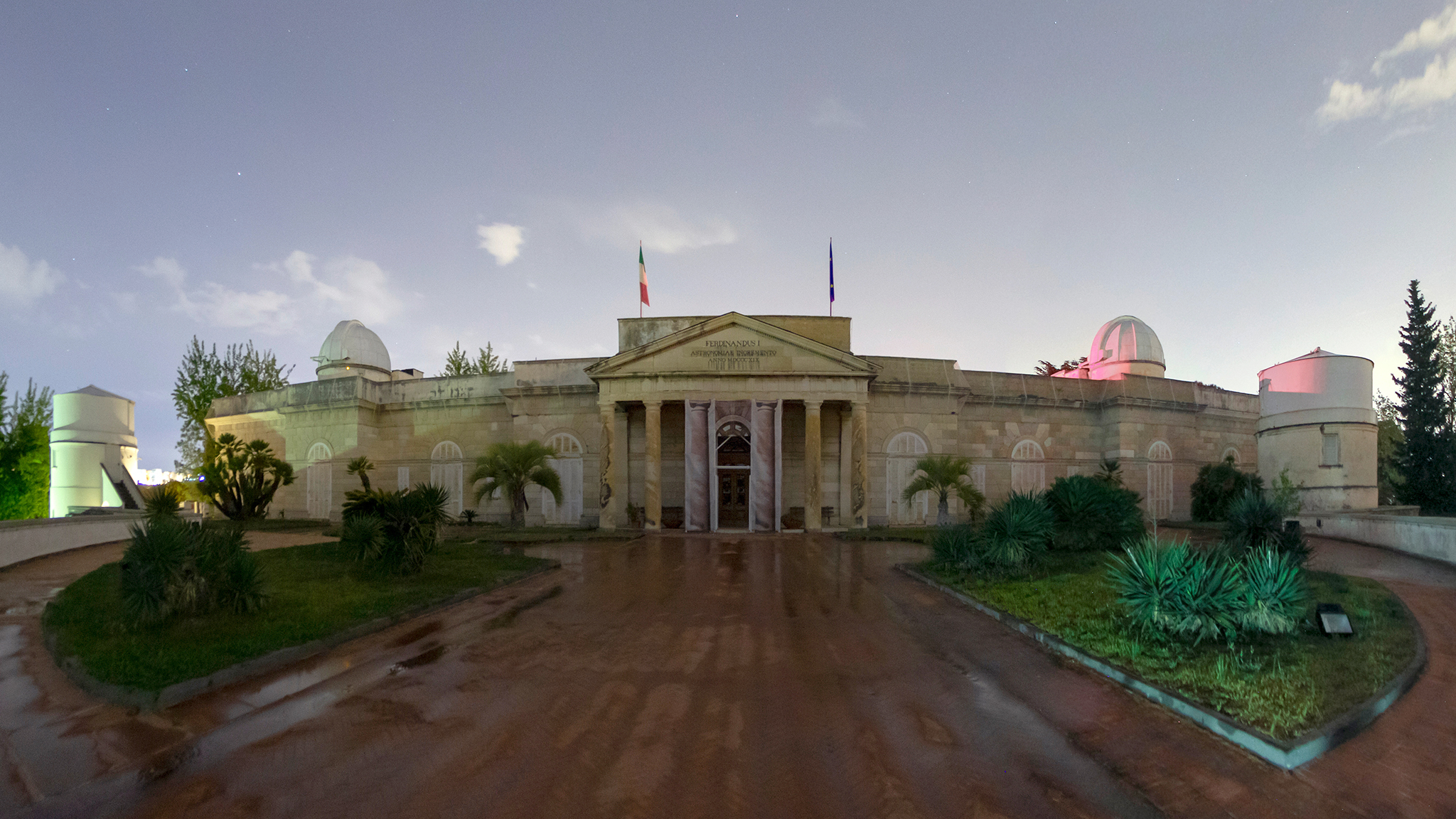 Night time image of the Osservatorio Astronomico di Capodimonte, Naples, Italy. Construction of the astronomical observatory of Naples, at the Capodimonte hill, started in 1812. The building in neoclassicistic style was inaugurated in 1819. Originally equipped with three domes (the third, central dome is not visible in this view), two larger drum-domes where added later. Today, the observatory hosts the Neapolitan department of Istituto Nazionale di Astrofisica (INAF). The obsevatory is aligned in East-West direction. Polaris, the pole star, is visible on top of the frame, above the center of the building. The bright star at left is Capella.